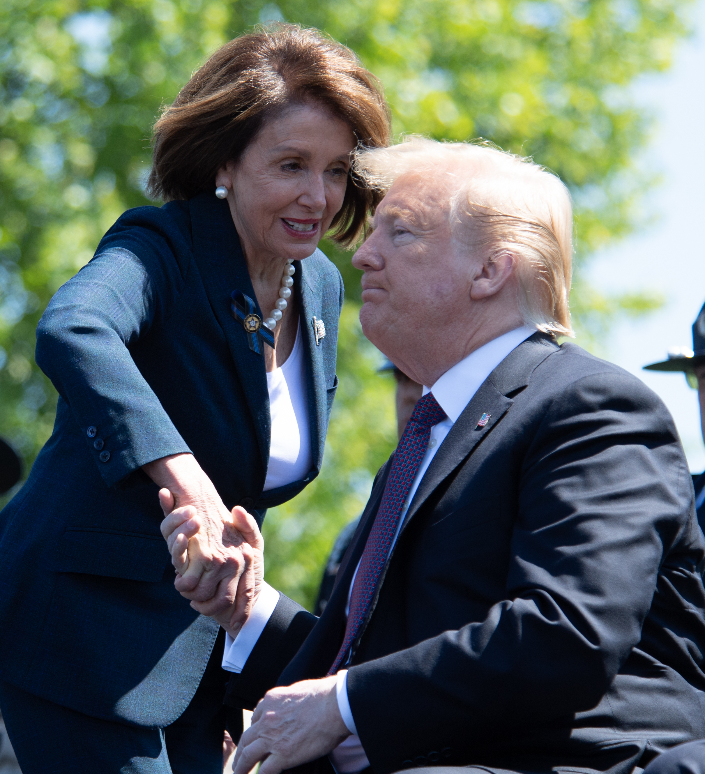 WASHINGTON, May 15, 2019 -- The 38th Annual National Peace Officers' Memorial Service was held today on the West Front of the U.S. Capitol to honor 158 law enforcement officers killed in the line of duty in 2018. The families of two deputy U.S. marshals -- Chase White, killed Nov. 29 in Arizona, and Chris Hill, killed Jan. 18 in Pennsylvania -- were in attendance to place red carnations in the memorial wreath and receive medals in honor of their lost family members. President Donald Trump gave the keynote address. In attendance were House Speaker Nancy Pelosi, House Majority Leader Steny Hoyer, U.S. Attorney General William Barr and heads of federal law enforcement agencies, including U.S. Marshals Director Donald Washington. Photo by: Shane T. McCoy/U.S. Marshals